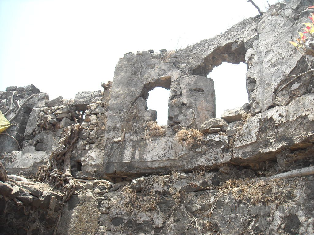 image was taken from korlai fort, Maharastra, India